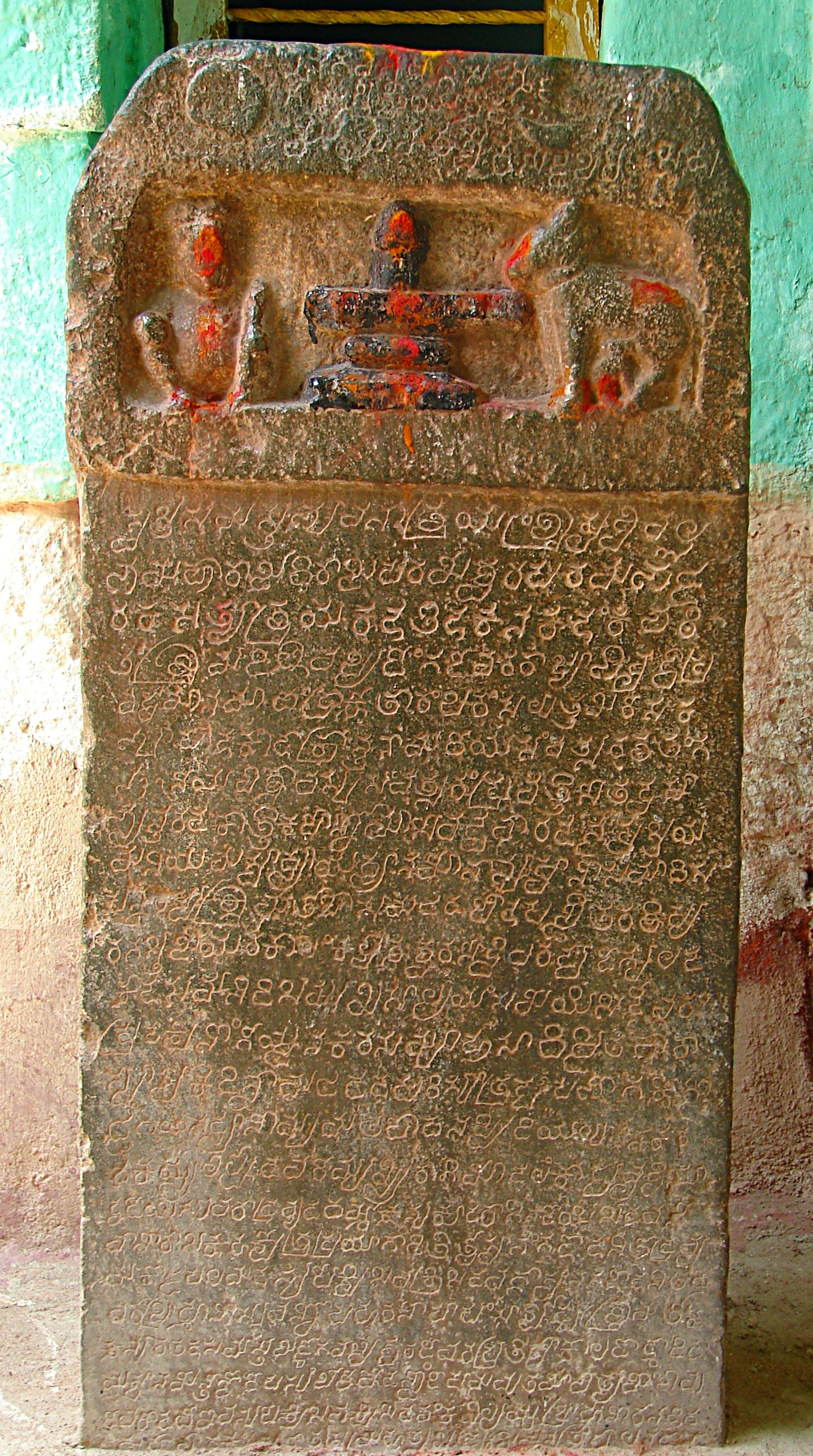 Photo of an old Kannada inscription (from the Rashtrakuta period) at the 9th century Navalinga temples in Kuknur, Koppal district, Karnataka state, India